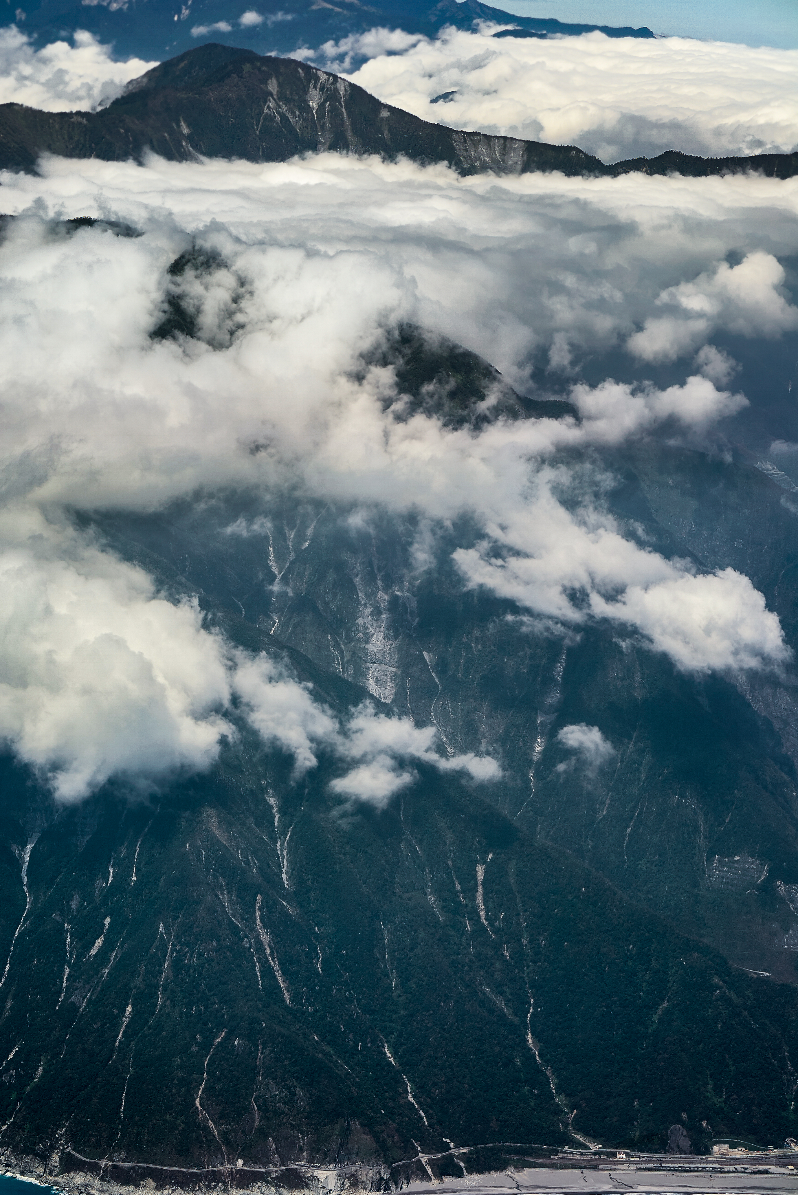 Mount Qingshui in the clouds.